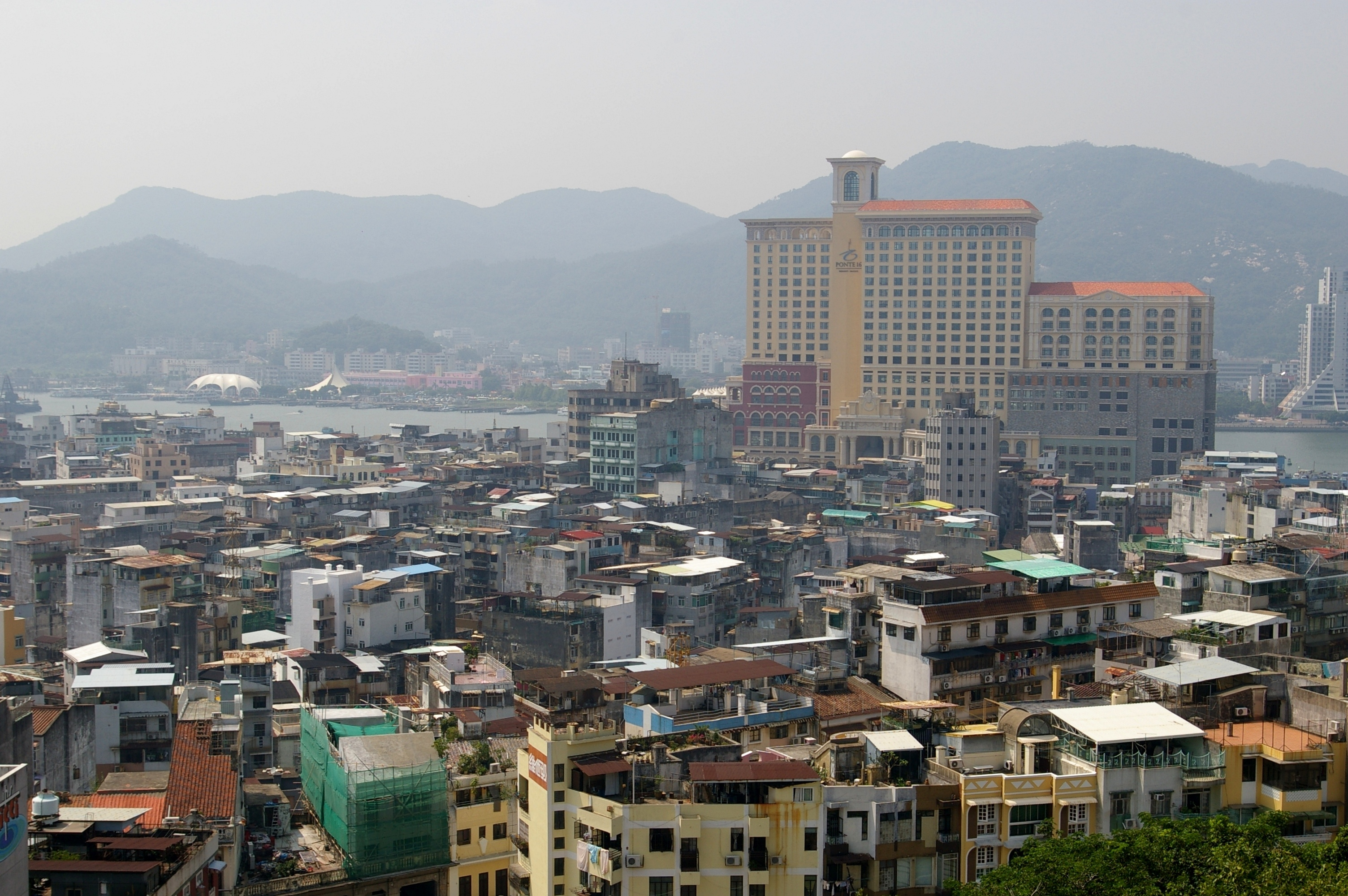 Macau